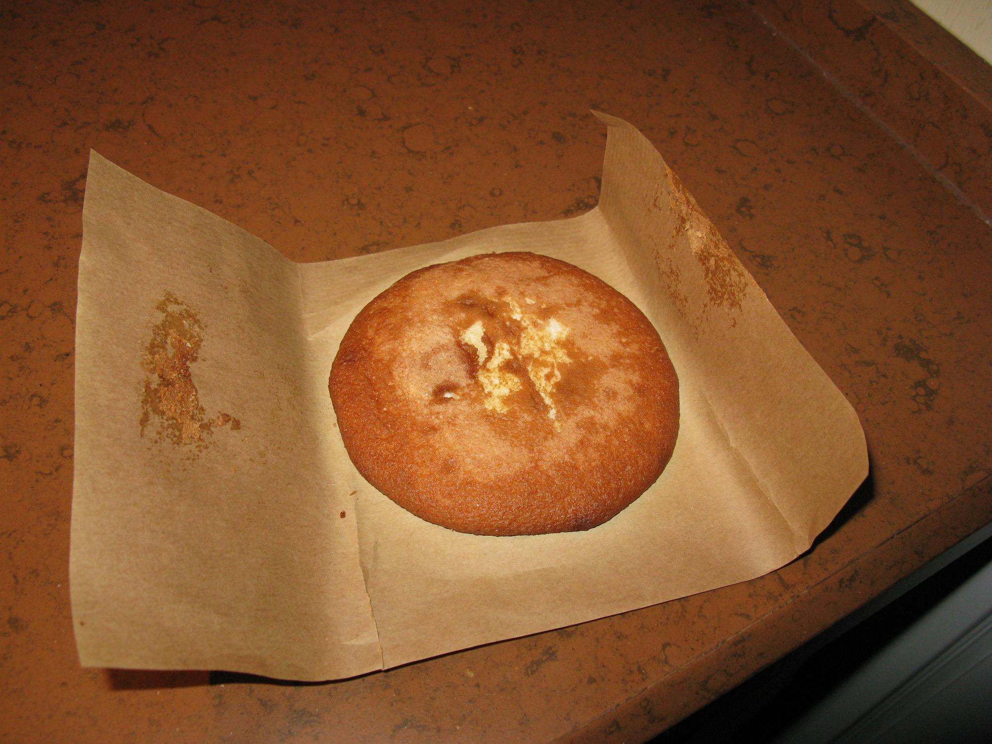 Mostachón from Utrera (Seville)